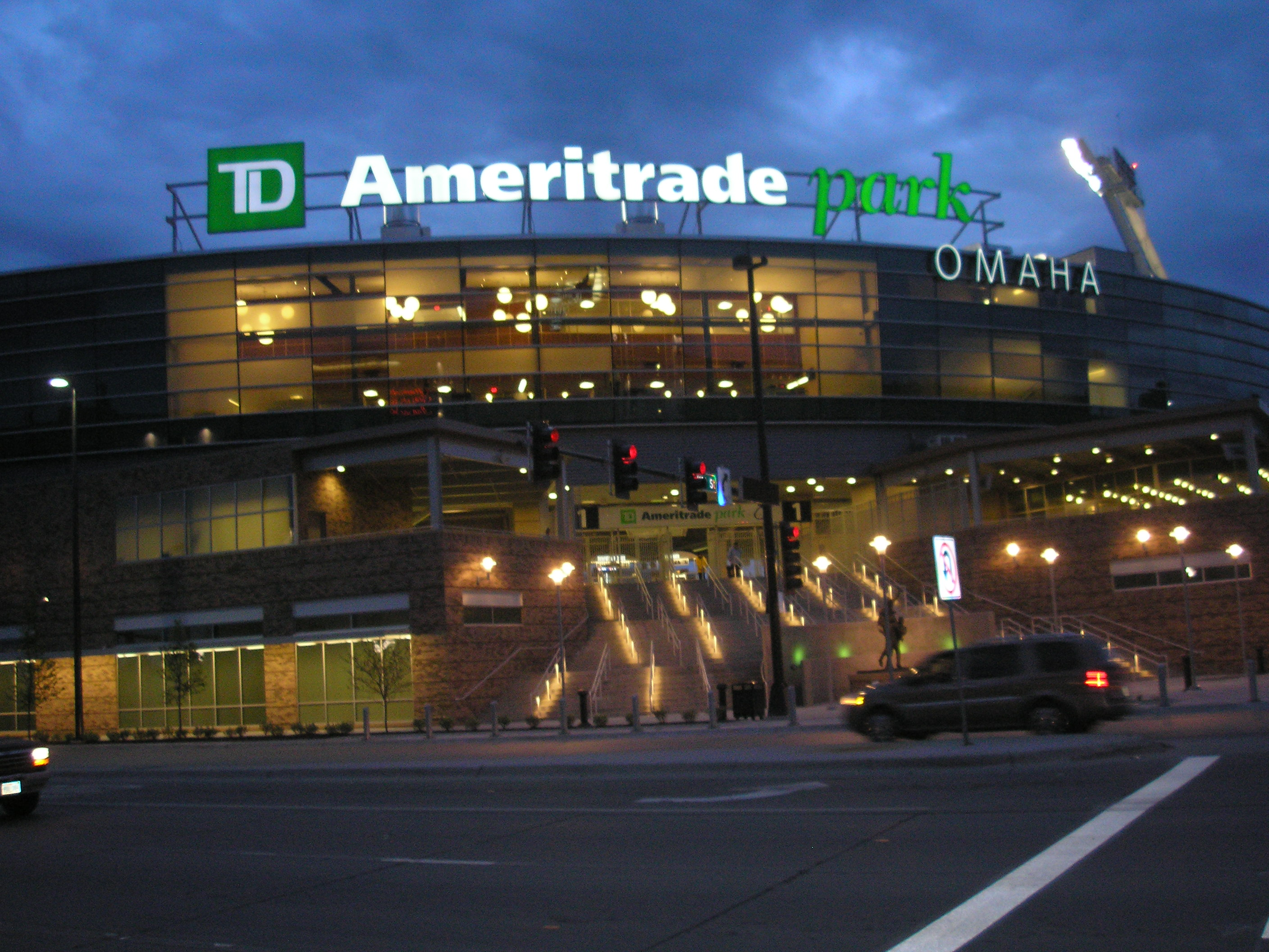 Enterance